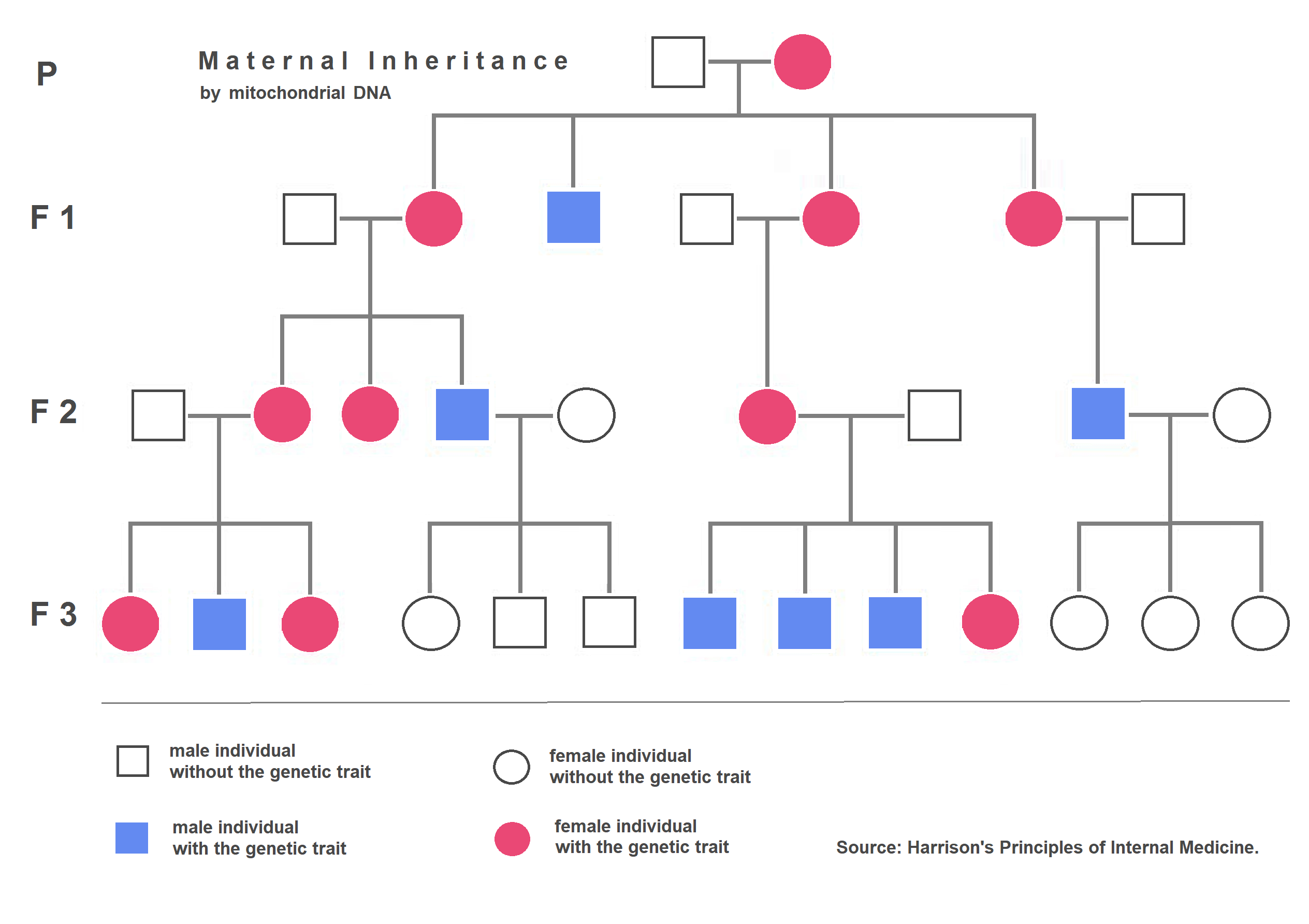 Pedigree for a maternally inherited genetic trait